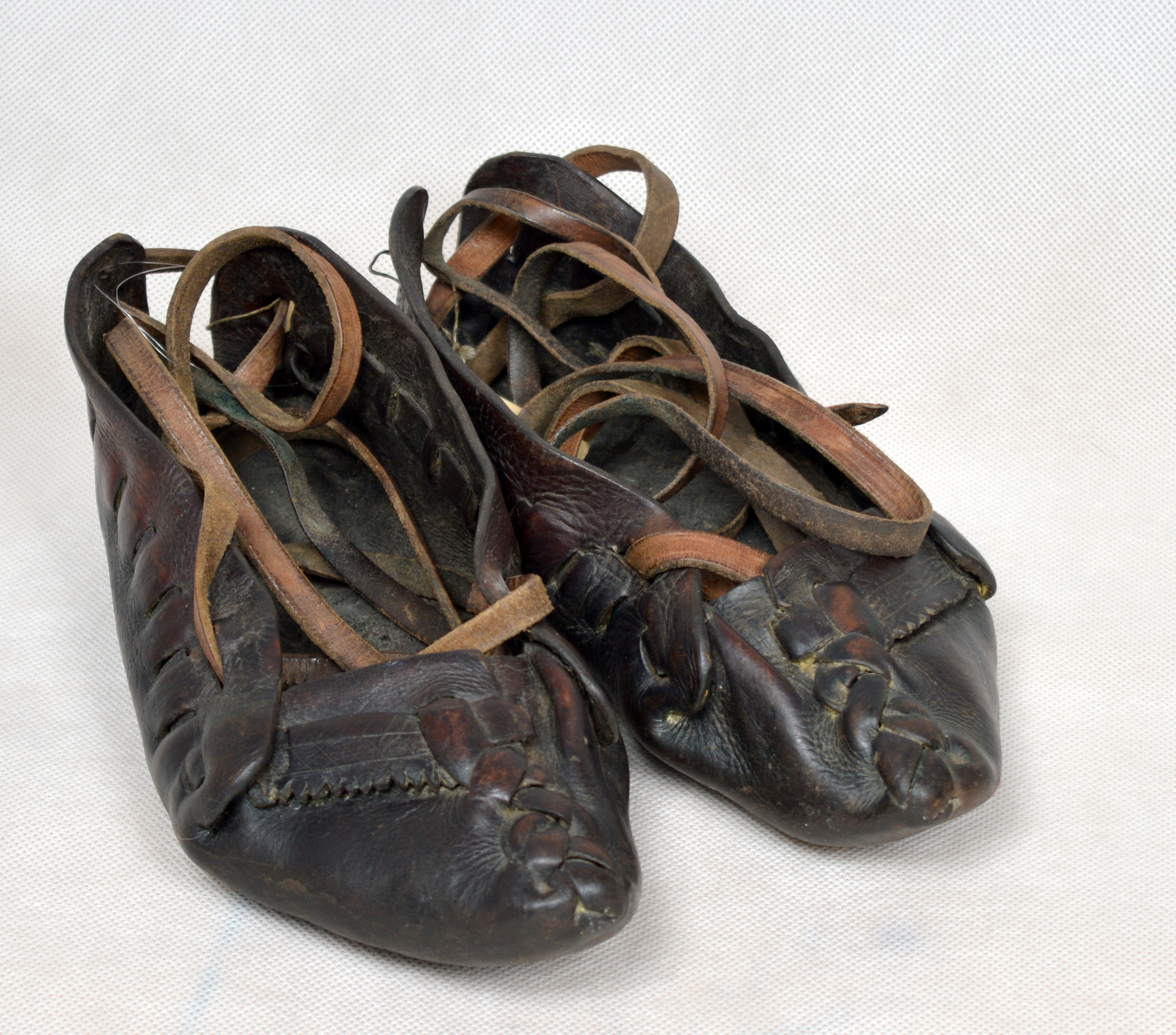 Woman Kierpce - traditional shoes from Podhale region in Poland. First half of XIX century. The property of Muzeum Tatrzańskie in Zakopane, Poland, inv. no. E/2073/MT. Purchased from M.Gerson in 1903.